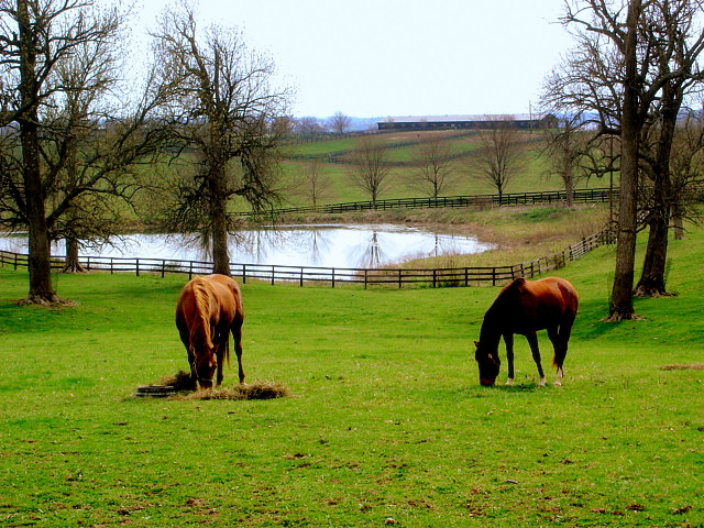 Horse farm in bluegrass country, South of Paris, KY.